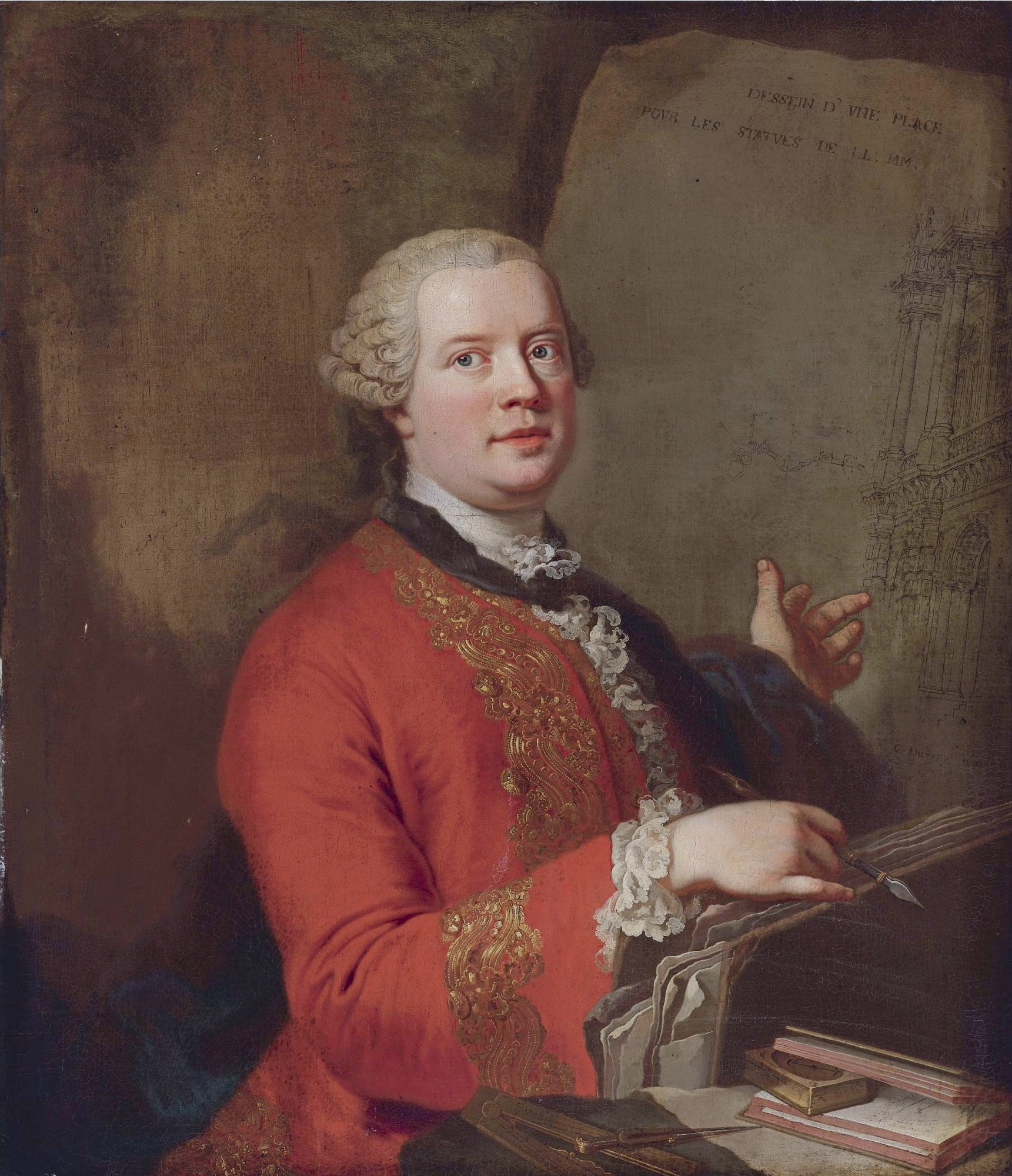 Portrait of Count Giacomo Durazzo (1717-1794)